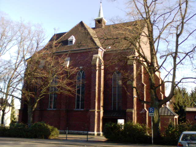 St. Sebastian Church in Stolberg-Atsch